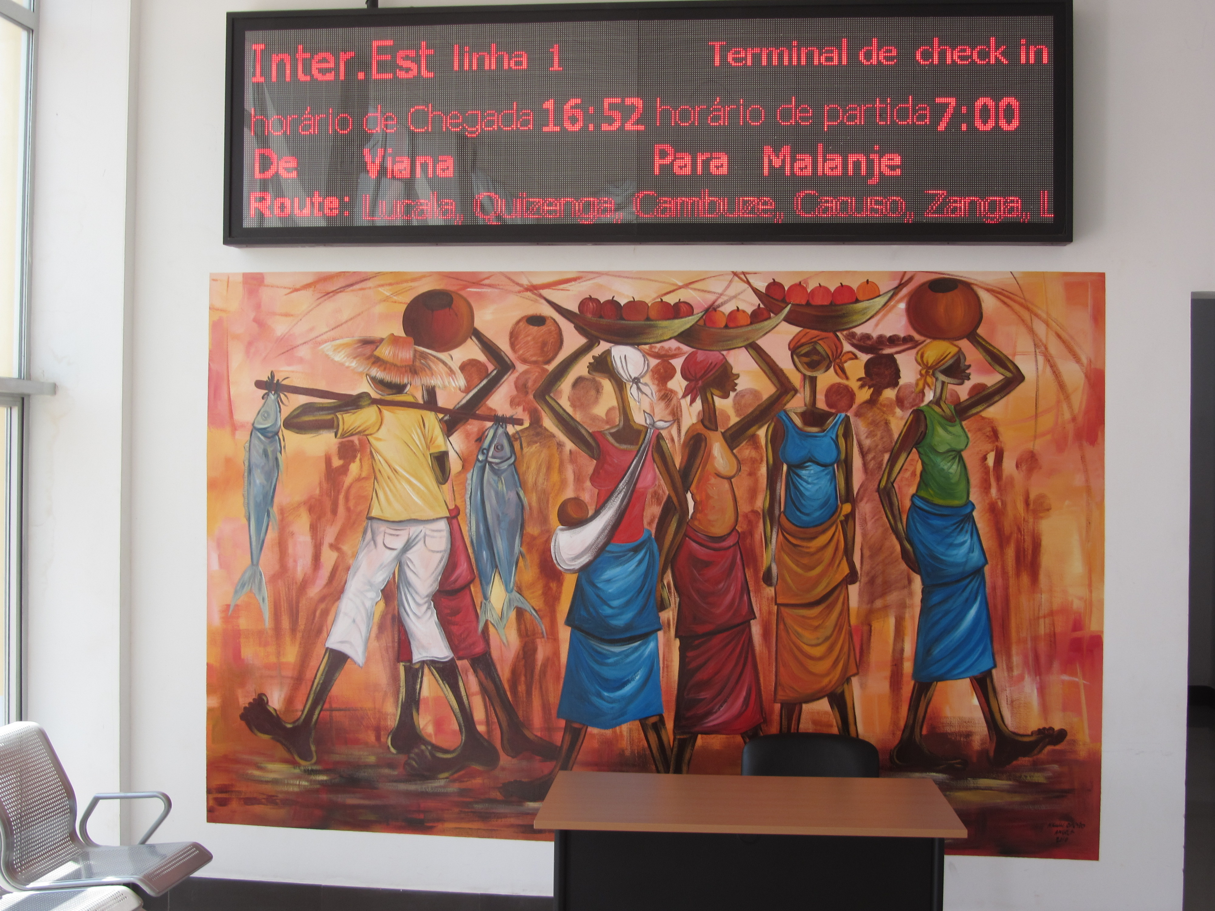 Arrivals board at Malanje railway station on Wednesday, August 31, 2011